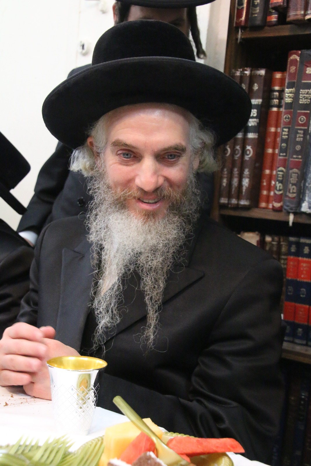 Rabbi Yochanan Shochat, Admor of Lutsk